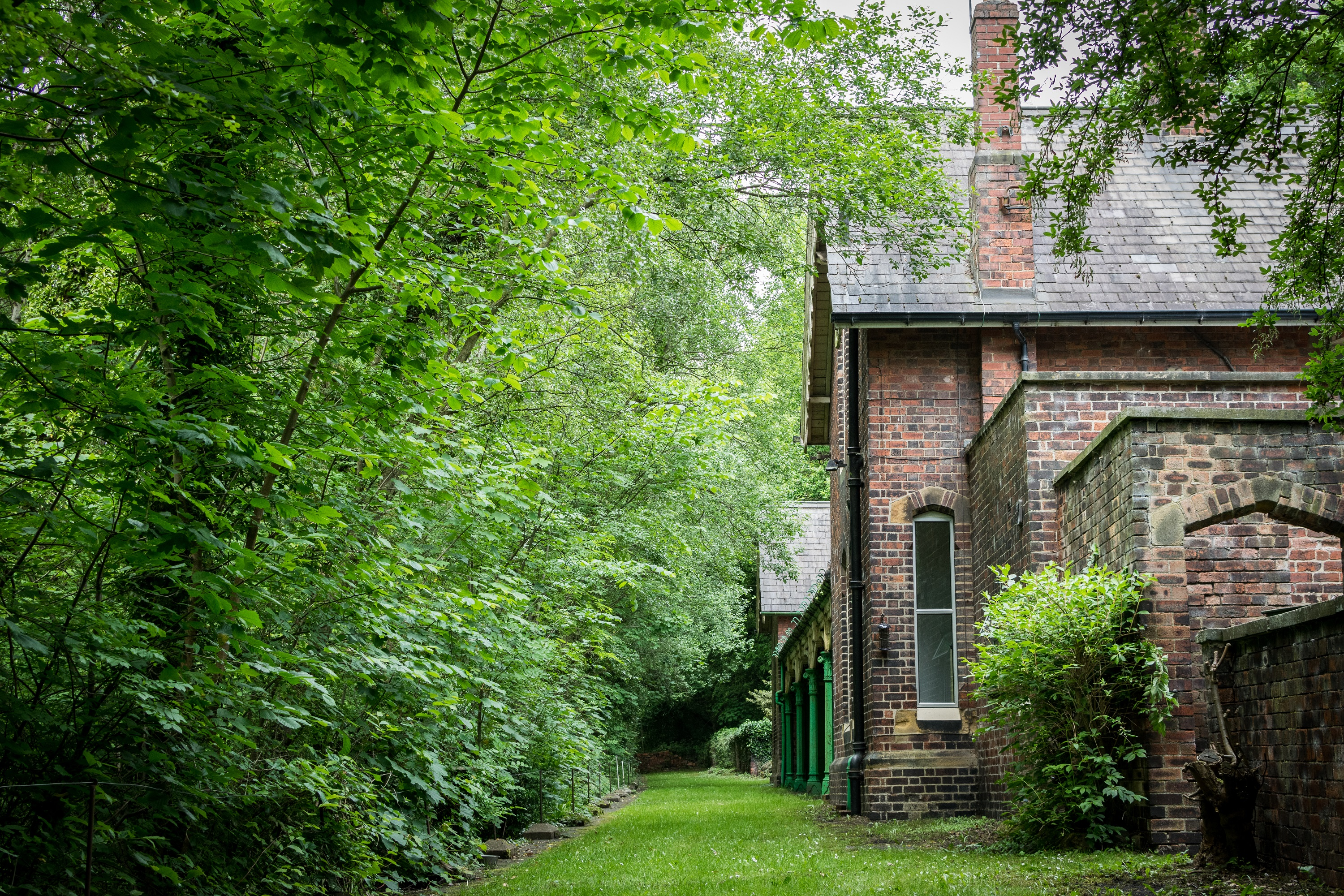 View on the platform, June 2017